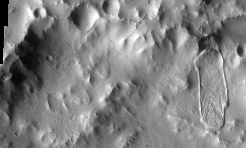 Montevallo Crater, as seen by themis. Location is 15.7 N and 54.3 W. Picture is 18.9 km wide. Picture taken with Mars Odyssey's THEMIS. Photo credit NASA/JPL/ASU.